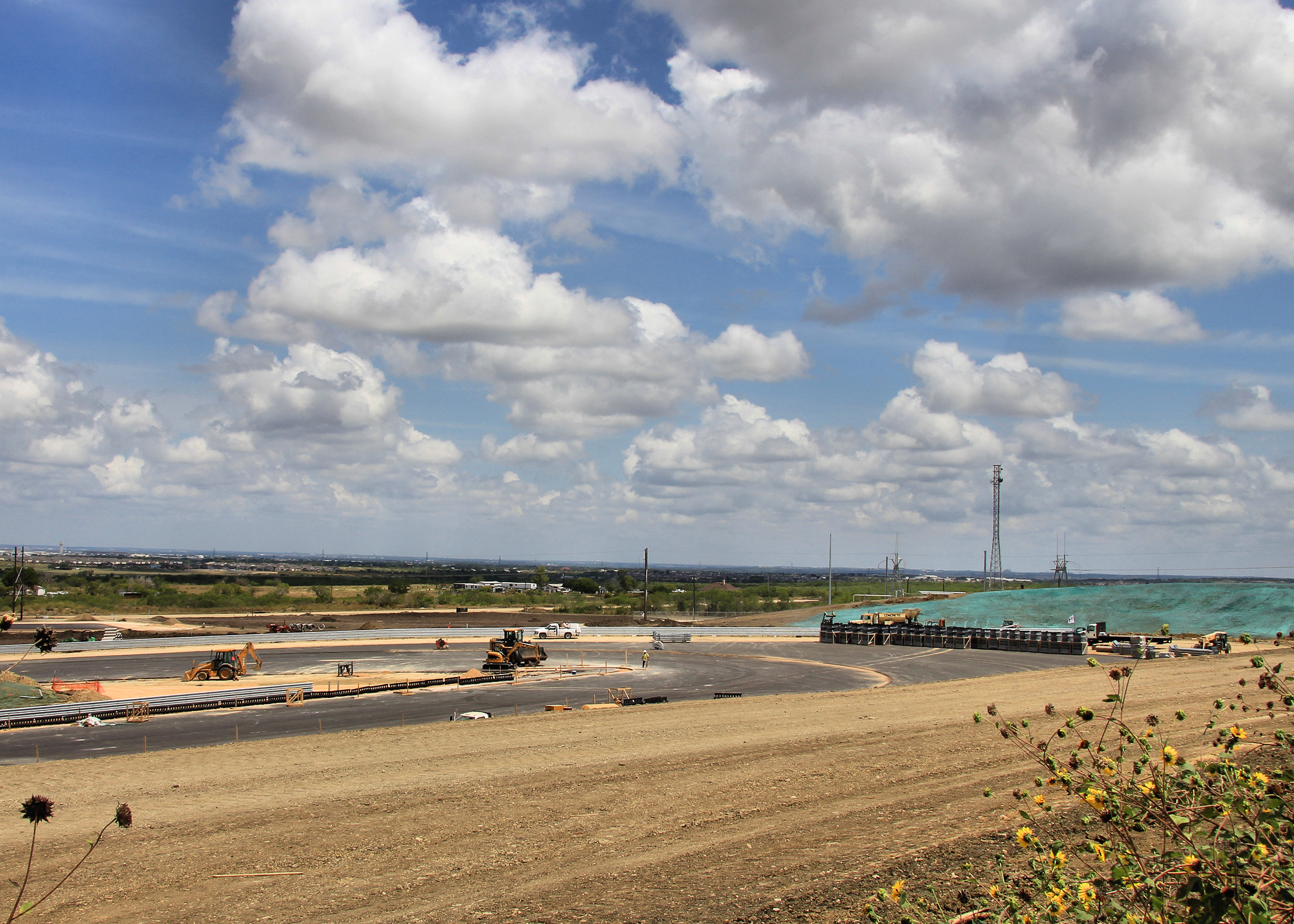 Turn 11 nearing completion at Circuit of the Americas.